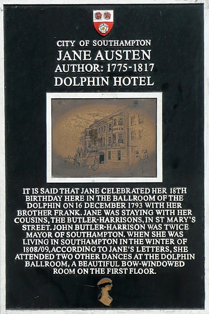 The Dolphin Hotel. In the heyday of Southampton as a spa town, during the late 18th and early 19th centuries The Dolphin Hotel was one of the places that people stayed. The plaque on the wall commemorates a visit by Jane Austen. It says "It is said that Jane celebrated her 18th birthday here in the ballroom of the Dolphin on 16th December 1793 with her brother Frank. Jane was staying with her cousins, the Butler-Harrisons, in St. Mary's Street. John Butler-Harrison was twice Mayor of Southampton. When she was living in Southampton in the winter of 1808/09, according to Jane's letters, she attended two other dances at the Dolphin ballroom, a beautiful bow-windowed room on the first floor." There is a picture of the Dolphin, showing the bow-windowed room, here 621098. The hotel is currently closed due to the recession, but is believed to have new owners.